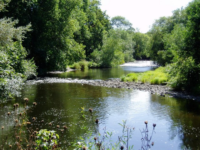 The historic Ford at Montgomery (Welsh = Rhyd Chwima = the swift ford), near to Garthmyl, Powys, Great Britain. The ford from England to mid Wales across the River Severn used for at least 2000 years (until c1886). The main meeting place between the representatives of King Henry 3 and Llywelyn ap Gruffudd, last Welsh Prince of Wales, in the mid 13th century. Where the Treaty of Montgomery, granting Wales considerable autonomy, was signed on 29th Sept 1267......and much else!